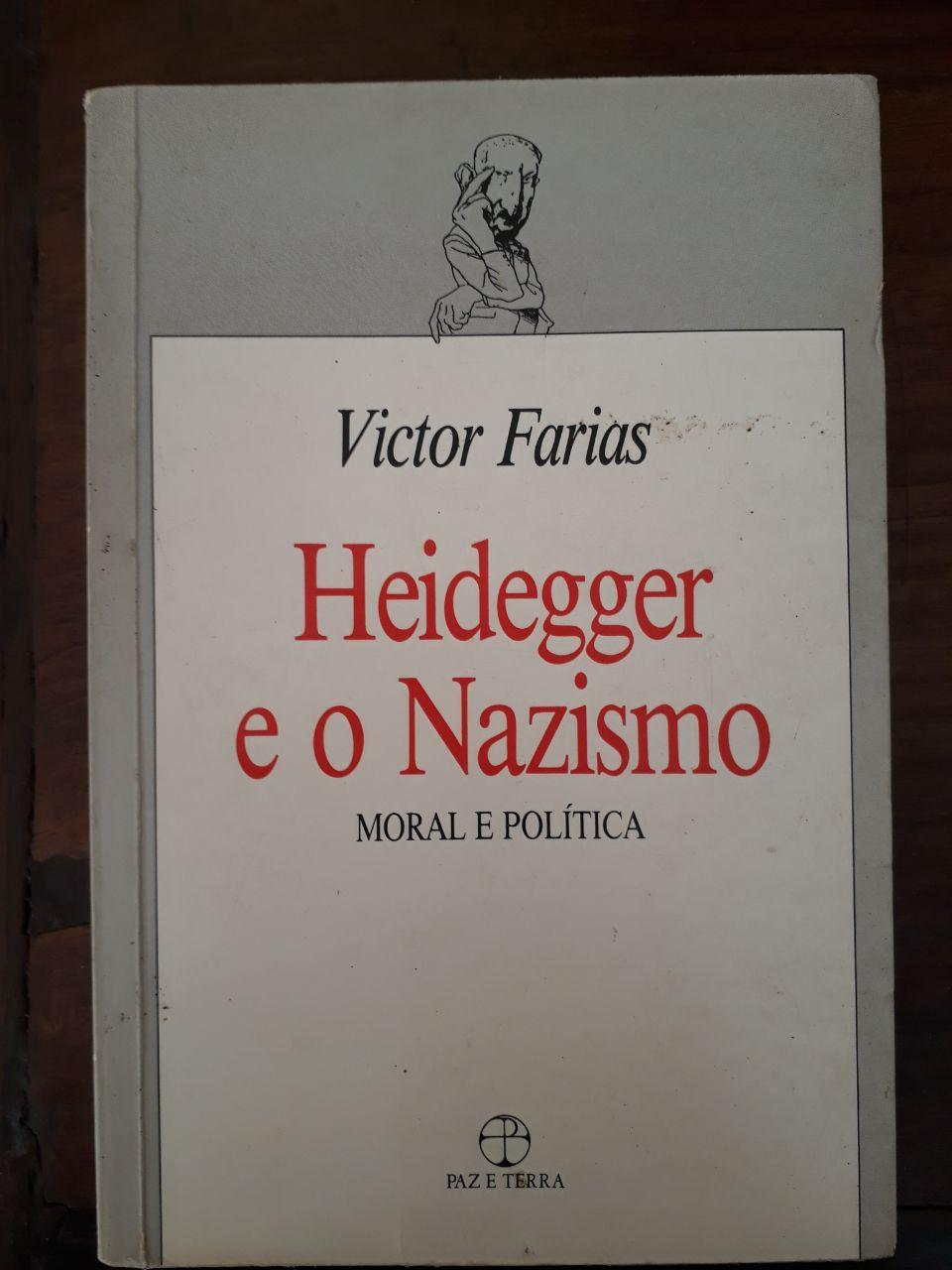 Cover of "Heidegger et le nazisme", Brazilian edition (Paz e Terra, 1988).